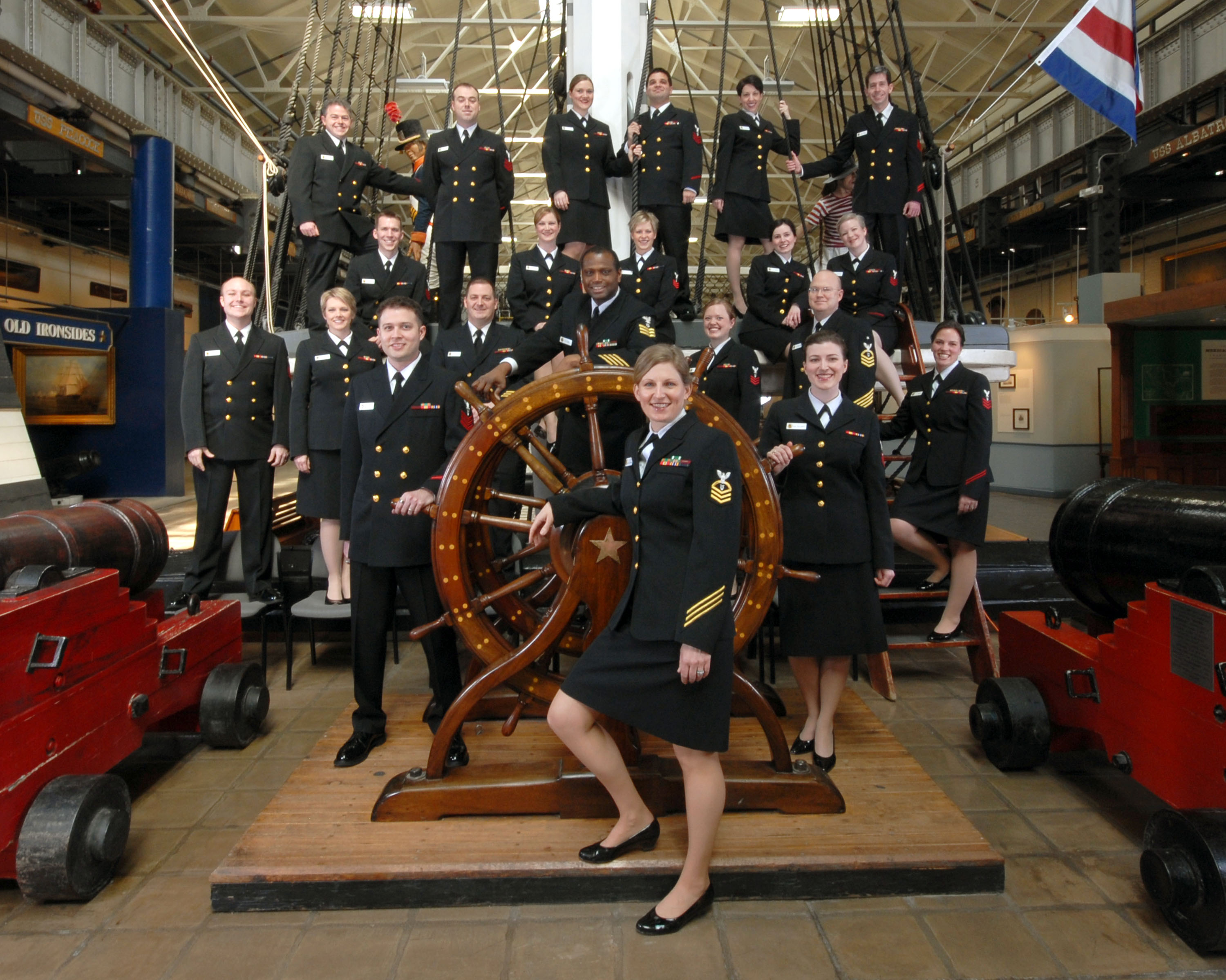 Sea Chanters Portrait